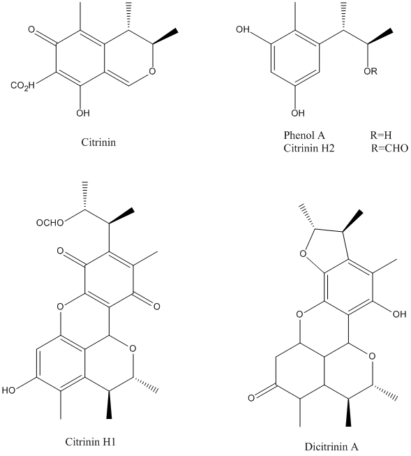 Based on the article of Clark BR et al.